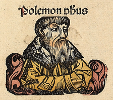 This is a part of a scan of an historical document: Title: Schedelsche Weltchronik or Nuremberg Chronicle